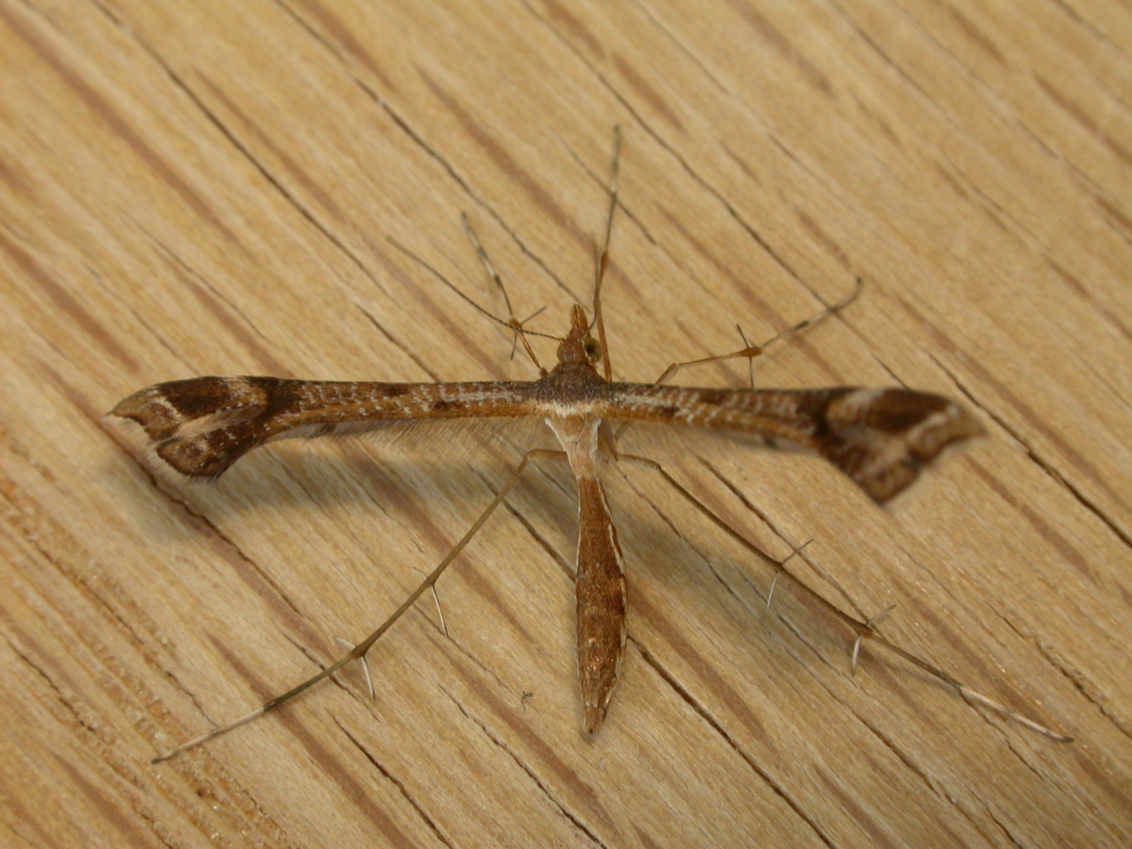 Sinpunctiptilia emissalis (Walker, 1864), reared from Derwentia perfoliata (R.Br.) B.G.Briggs & Ehrend., ANBG, Canberra, ACT, emerged 4 January 2009 (pupated on 29 December 2008) This species has been known as Platyptilia omissalis Fletcher, 1926, but Arenberger has moved the species to the genus Sinpunctiptilia and synonymised it with Walker's Platyptilus emissalis.